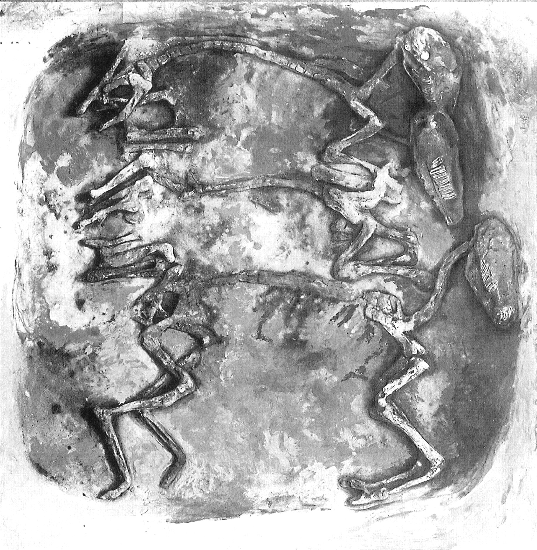 Vertical photo in situ. Burial of three horses from the saxon Wulfsen burial site. between circa 700 and circa 800 AD Length: 520 mm (20.4 in); Width: 182 mm (7.1 in); Depth: 35 mm (1.3 in) dimensions QS:P2043,520U174789;P2049,182U174789;P5524,35U174789